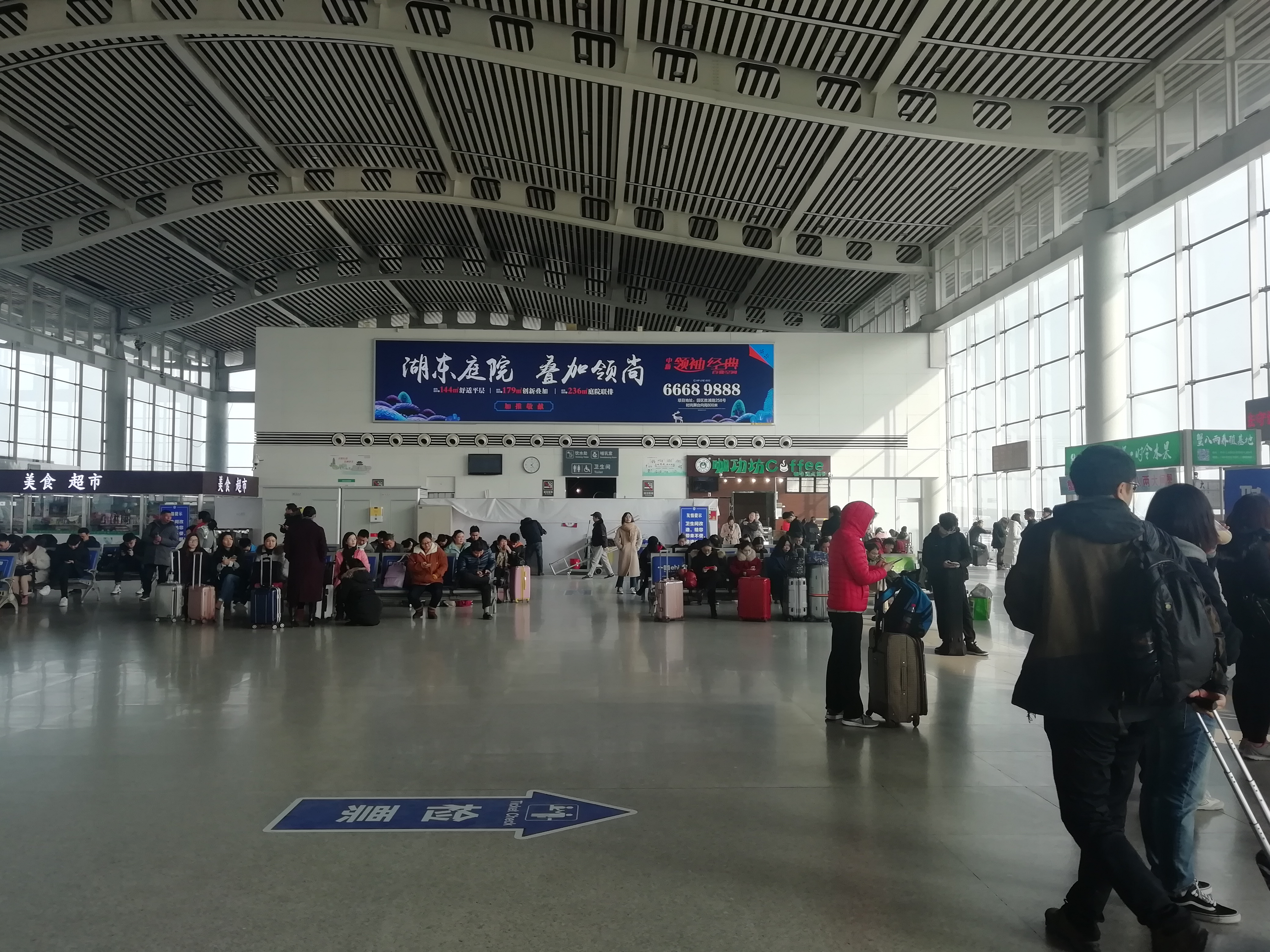 Station Hall of Suzhou Industrial Park Railway Station. Long time no see... 中文（中国大陆）: 苏州园区站站厅，好久不见了……